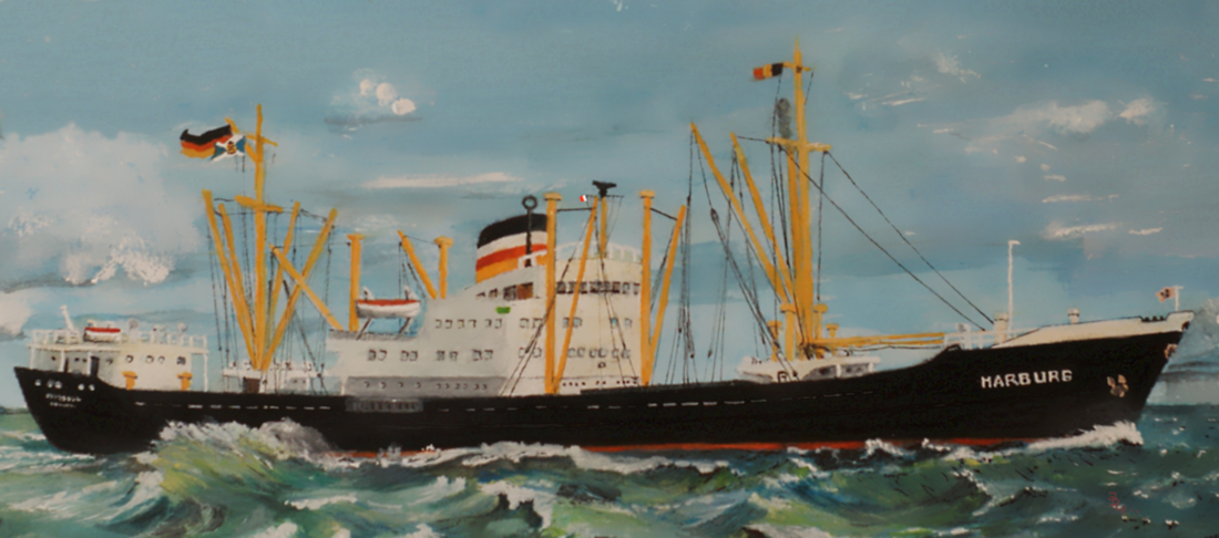 Hapag cargo ship Marburg on the Westerschelde with destination port of Antwerp im März 1966